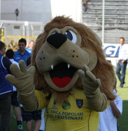 Frosinone's mascot Lillo